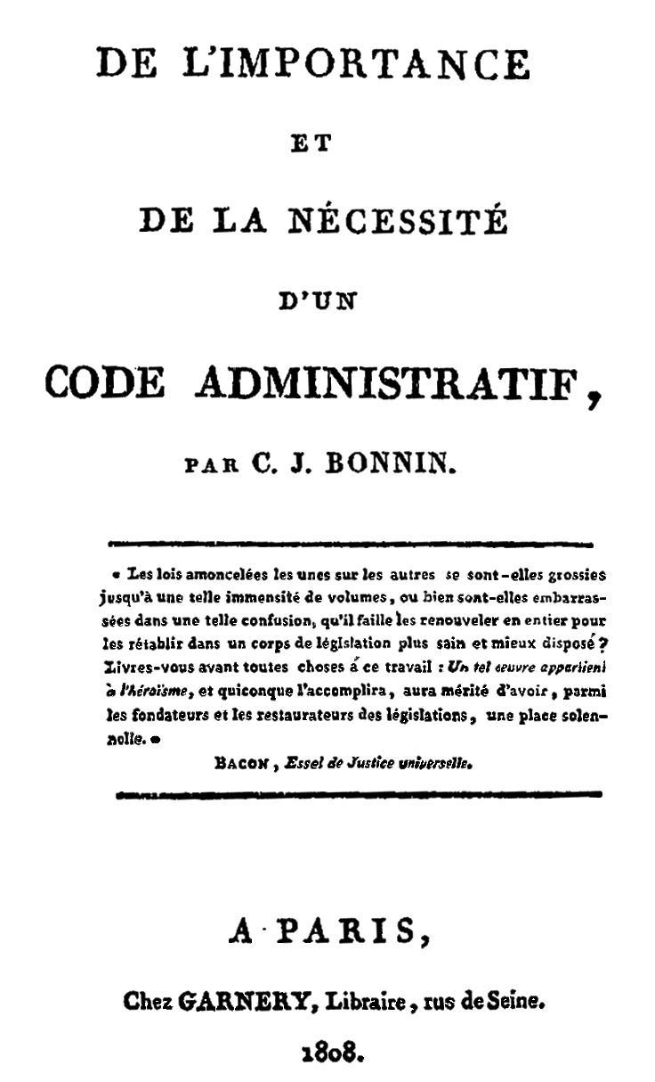 De la Importancia y Necesidad de un Código Administrativo - 1808